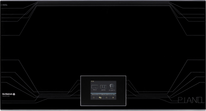 DeDietrich LePiano hob